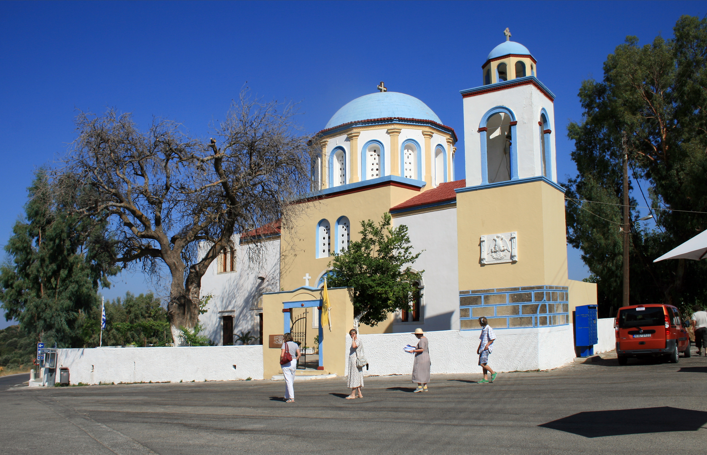 Asfendiou Monastery, one of 3 monasteries near Zia town on Kos island (Greece)